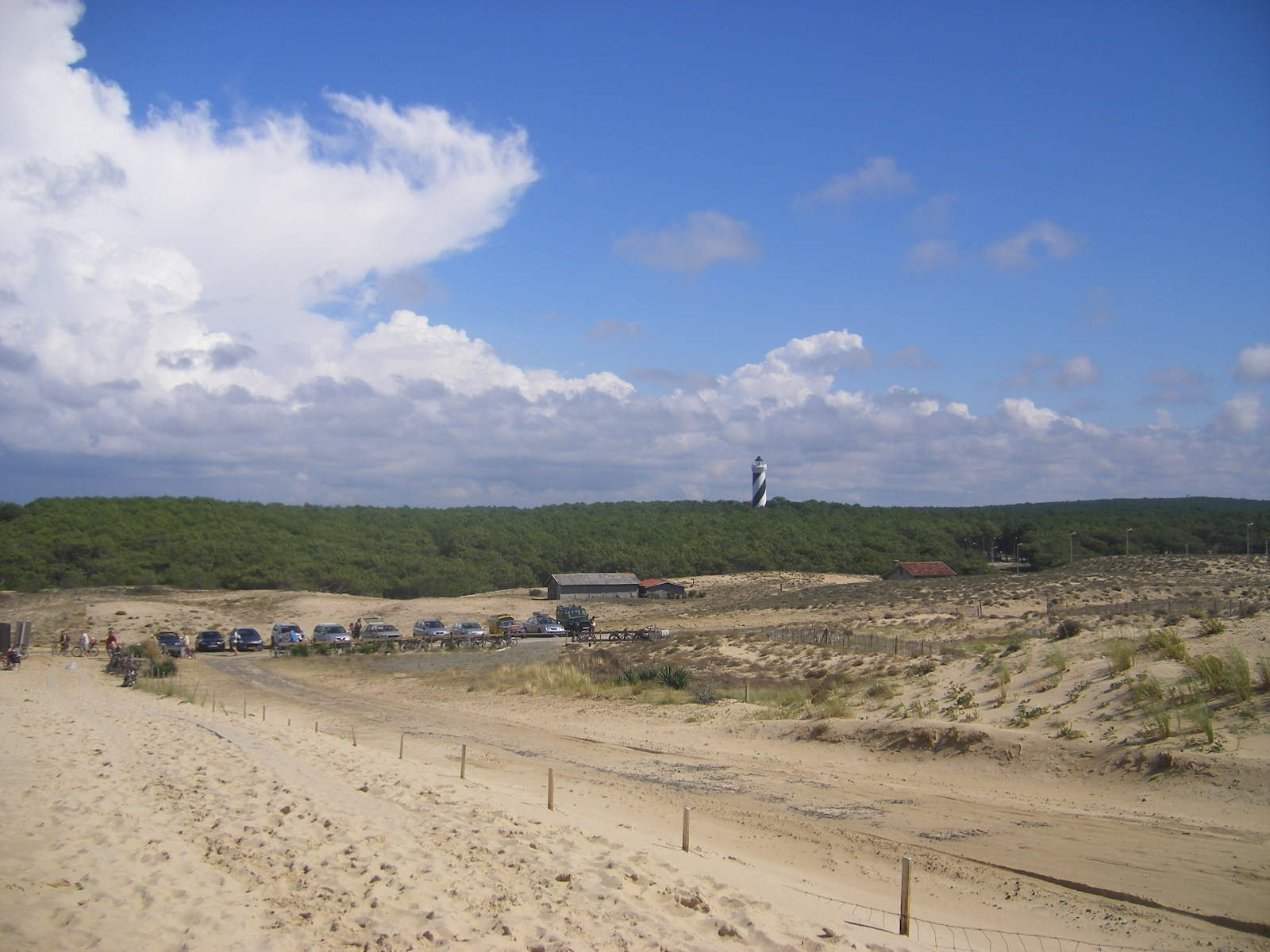 Contis-Plage from the dunetop.